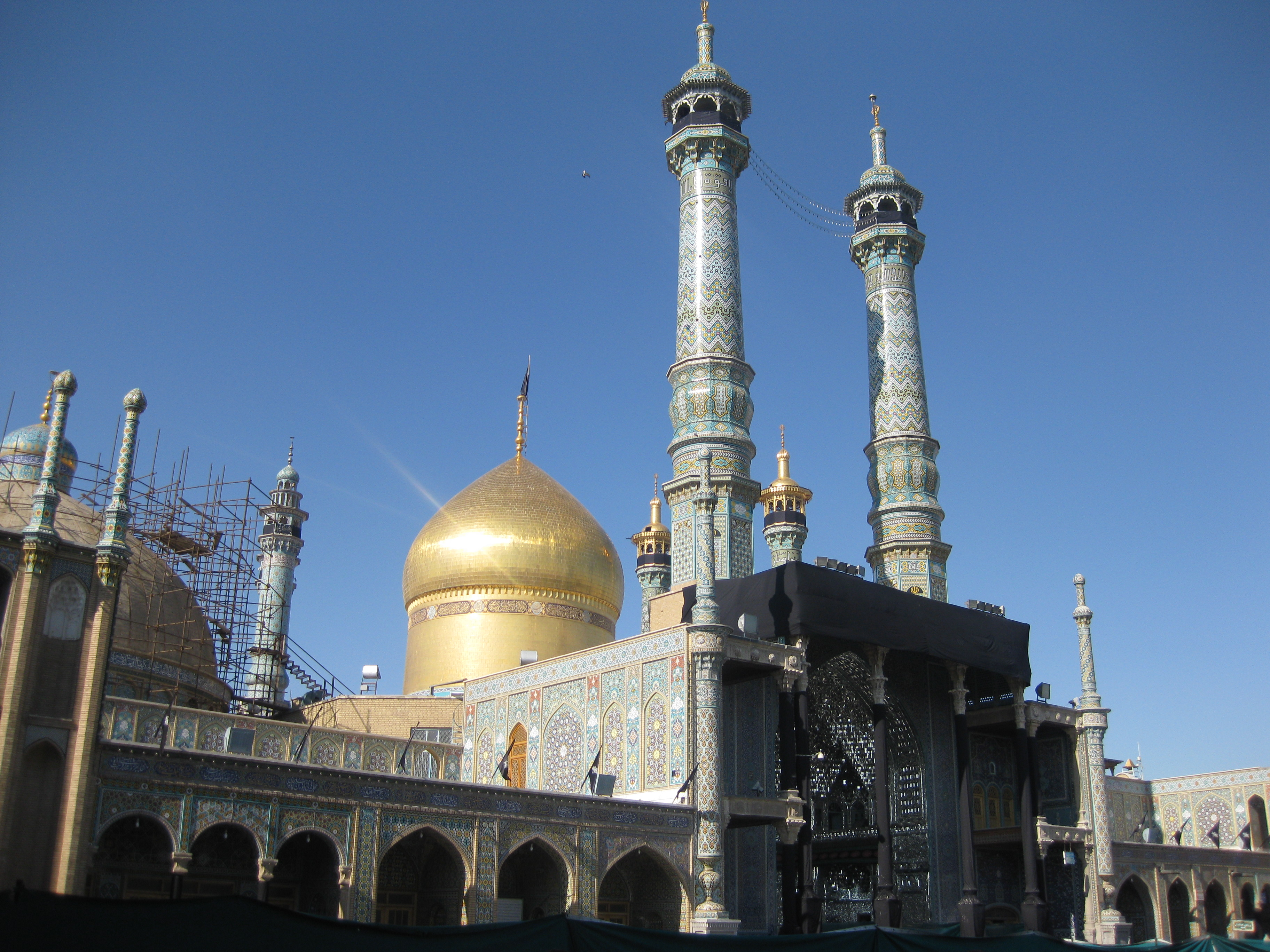 The shrine of Fatema Mæ'sume, sister of Imām ˤAlī ibn-Mūsā Riđā, is located in Qom, the second most sacred city in Iran after Mashhad.Shah Abbas I built the shrine complex in the early 17th century. The shrine has attracted to itself dozens of seminaries and religious schools.